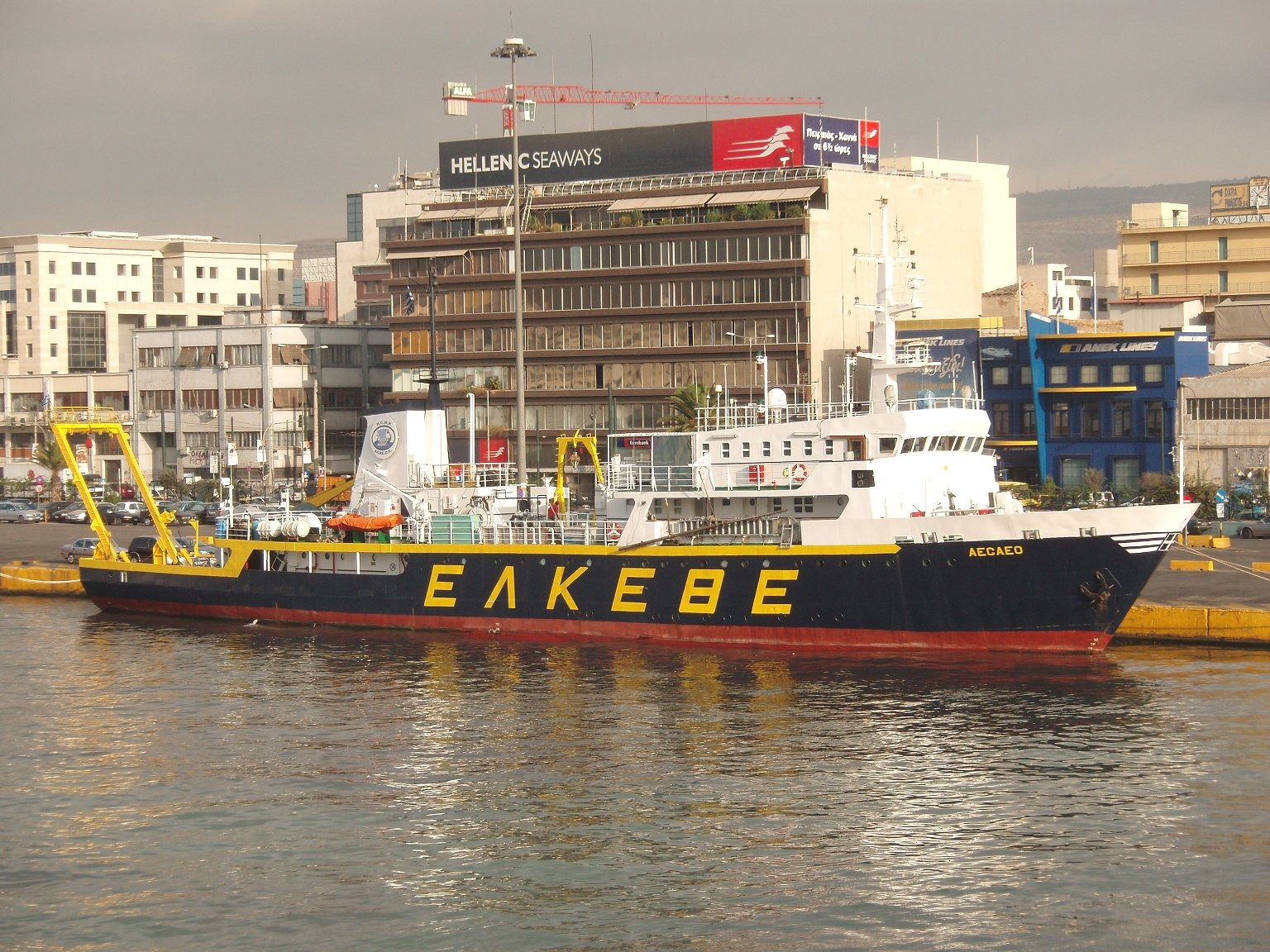 R/V Aegaeo, SXYY, IMO:8412429, of the Hellenic Centre for Marine Research.